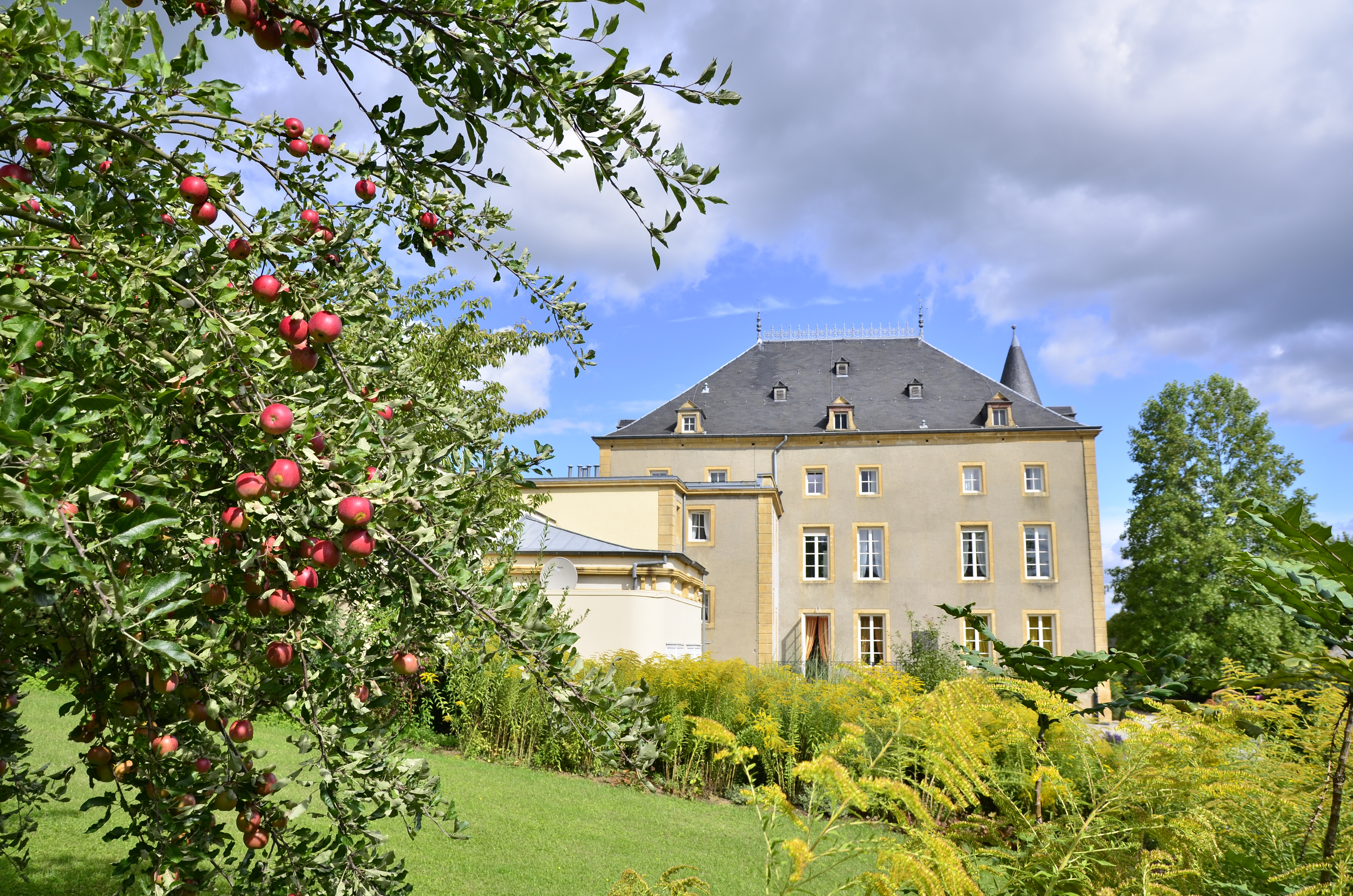 Castle of Schengen (L)